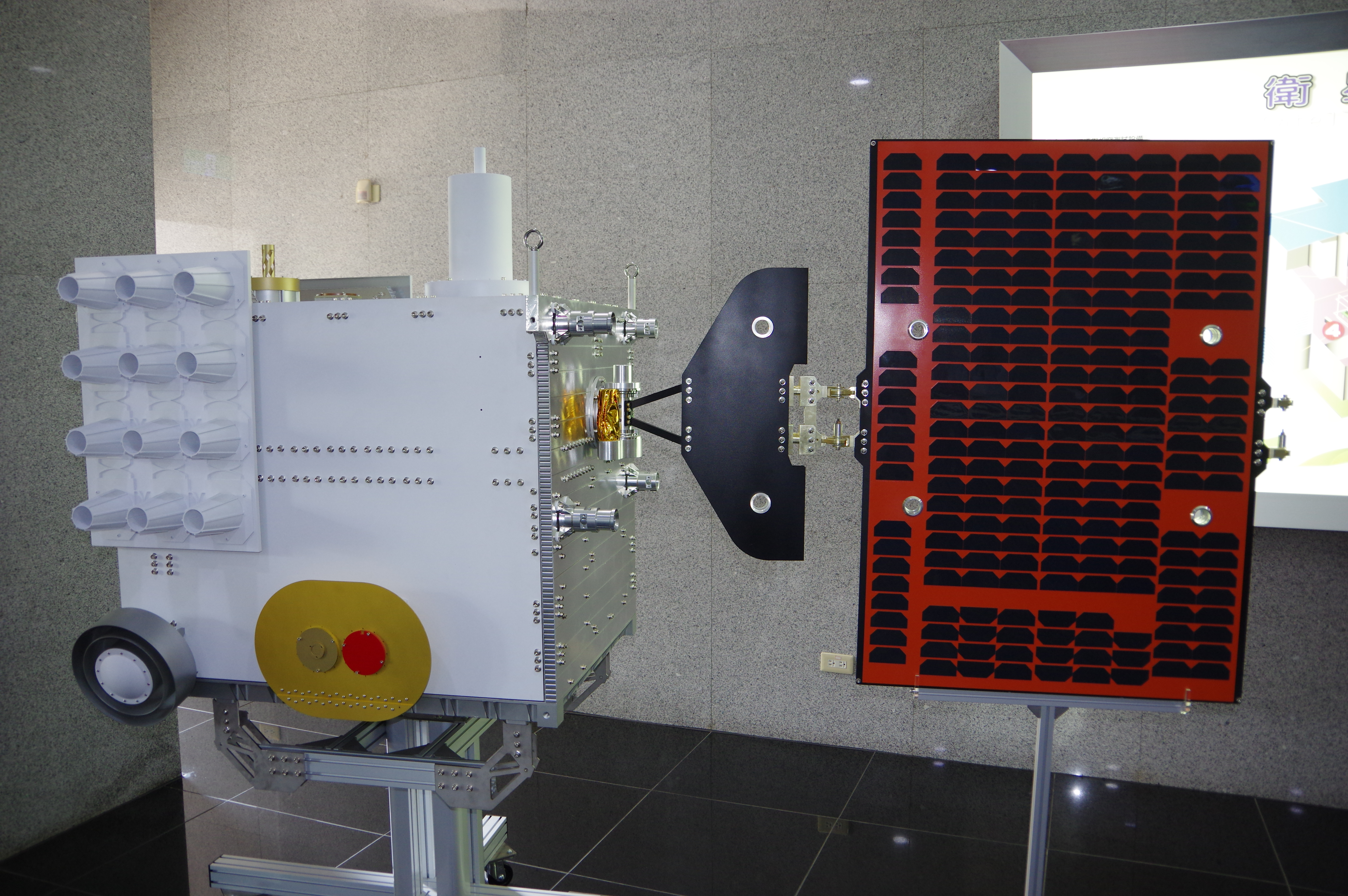 FORMOSAT-7